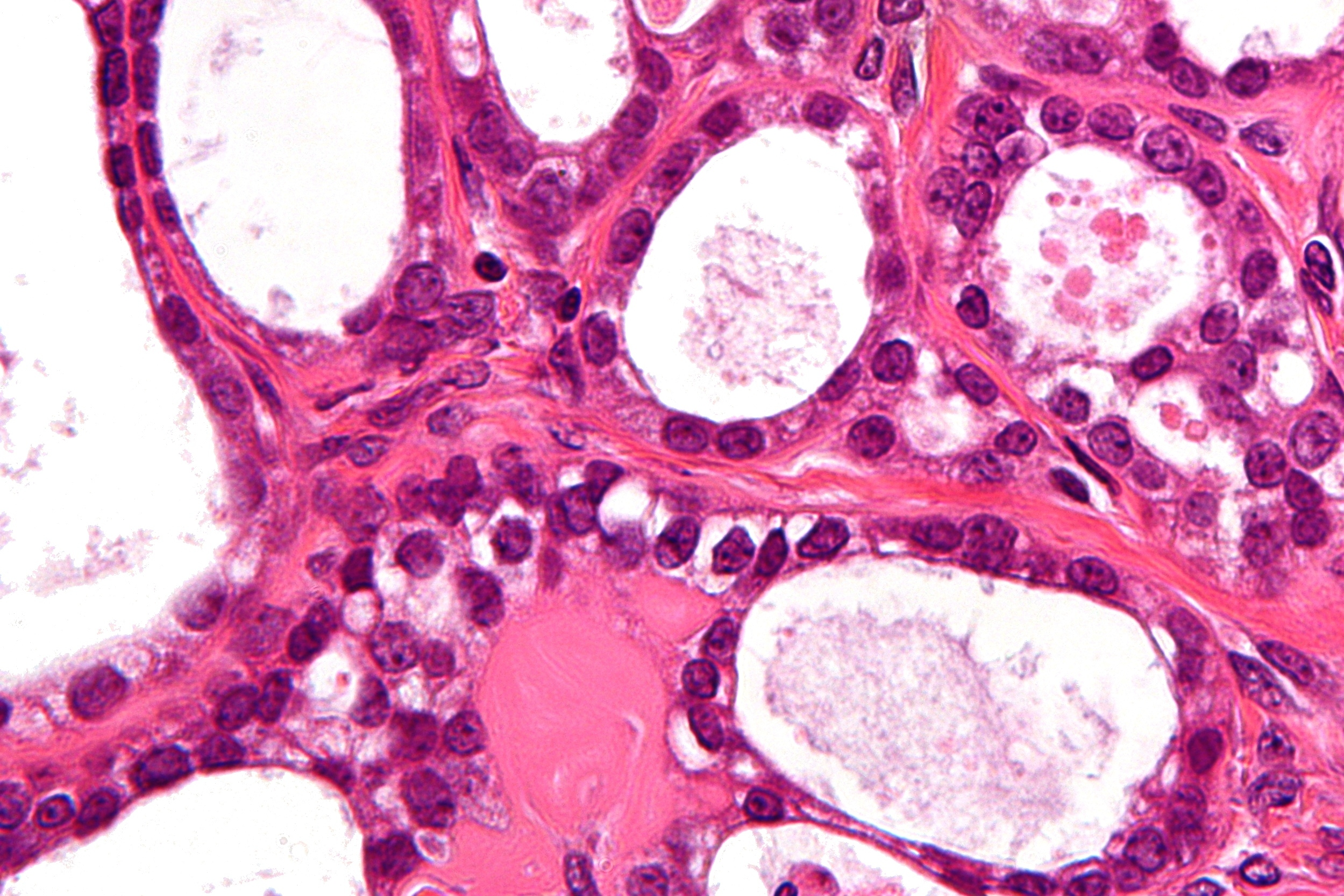 Very high magnification micrograph of an ovarian clear cell carcinoma, also clear cell adenocarcinoma of the ovary. H&E stain. The images show, focally, the characteristic clear cells with prominent nucleoli and the typical hyaline globules. Related images Low mag. Intermed. mag. High mag. Very high mag. Intermed. mag. High mag. Very high mag. Very high mag. (cropped)